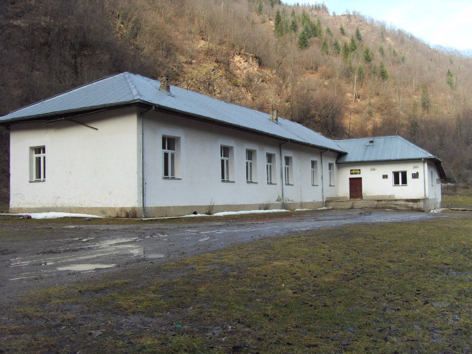 This school is in Drelaj, Rugove.